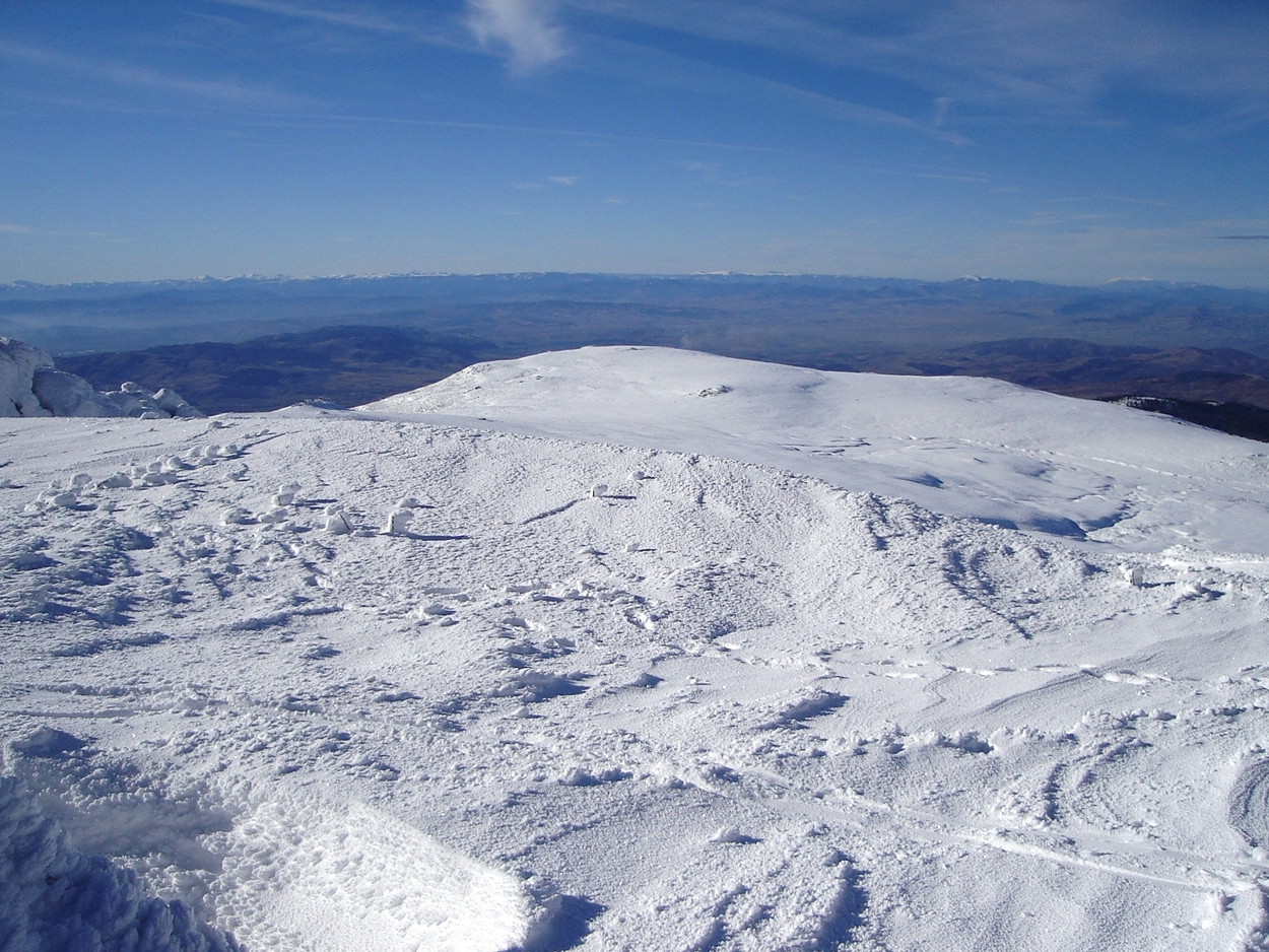 Selimitsa Peak in Vitosha Mountain, Bulgaria. Photograph by Nikolay Rainov published in under Creative Commons license 2.5.